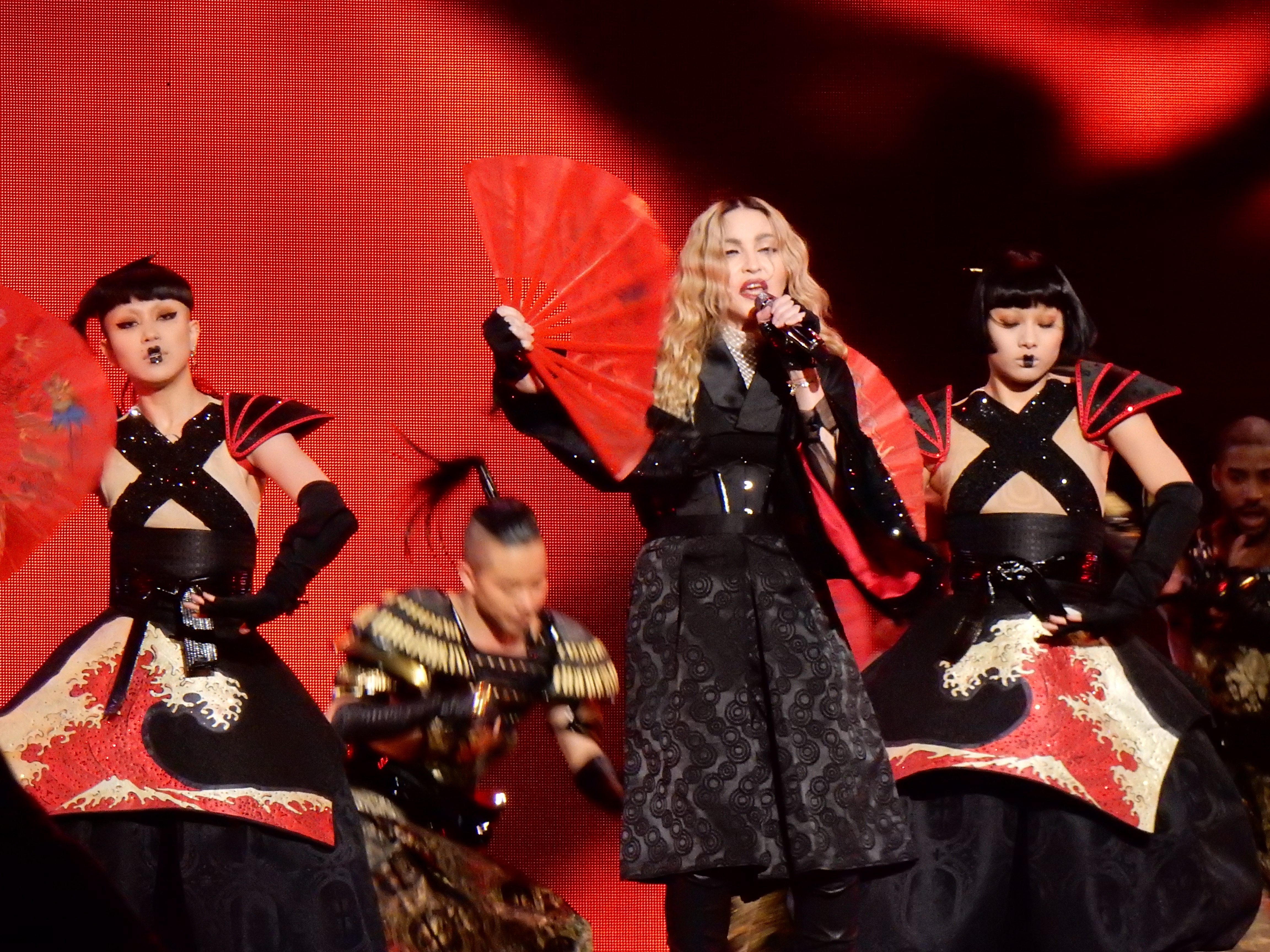 Madonna - Rebel Heart Tour 2015 - Paris 1